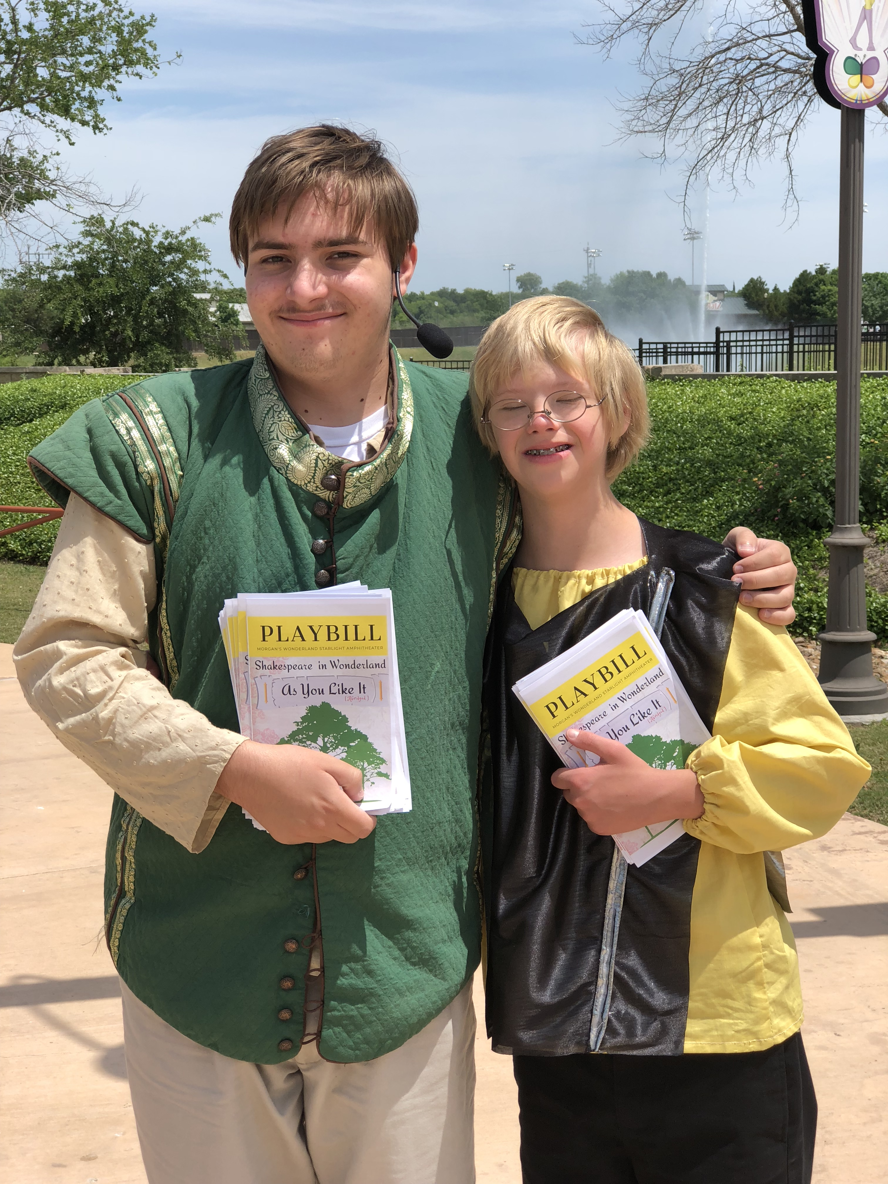 April 2018 Shakespeare in Wonderland - "As You Like It"